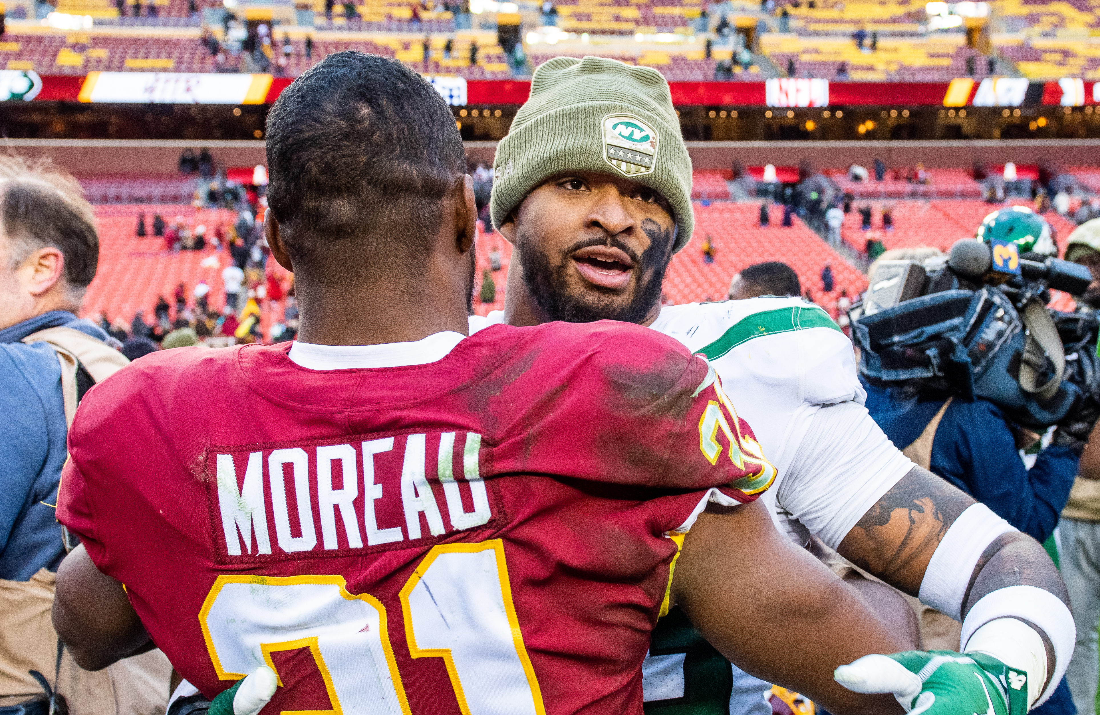 In 2019